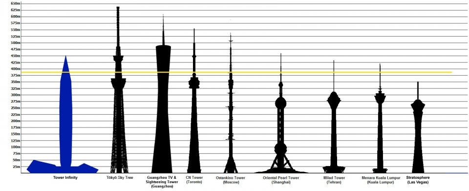 [ 準建築人手札網站 Forgemind ArchiMedia 首爾興建世界首座「隱形」大樓 拉升南韓旅遊業 GDS Architects 建築師事務所設計]